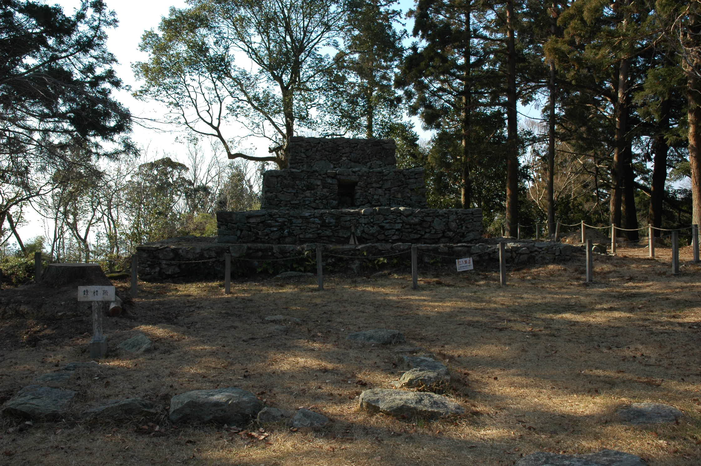 photo of Kumayama remains(Japanese national historical place),It was Buddhism facilities of the Nara period in Akaiwa, Okayama, Japan.